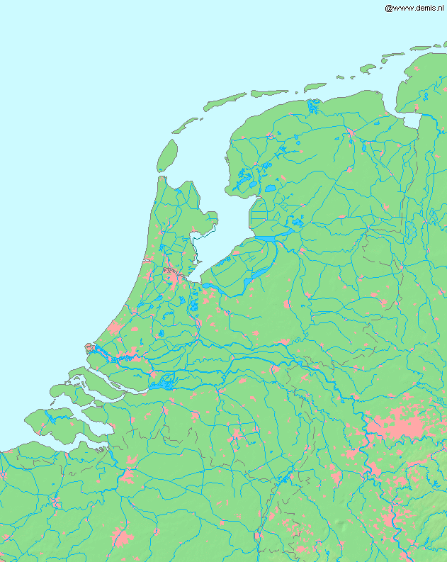 Netherlands. Bounding box West 3.2°, South 50.7°, East 7.5°, North 54°. Center at 52°21′00″N 5°21′00″E / 52.35000°N 5.35000°E.